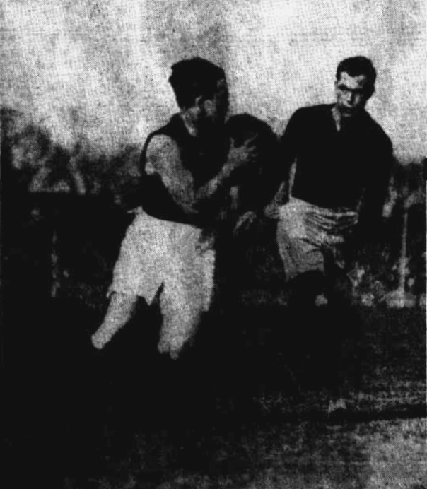 Original Caption: "Fraser (Carlton) was a dashing player in front. He found in Elliott (Fitzroy) an opponent of equal determination in defence of the goal for which the Carltonian was striving."